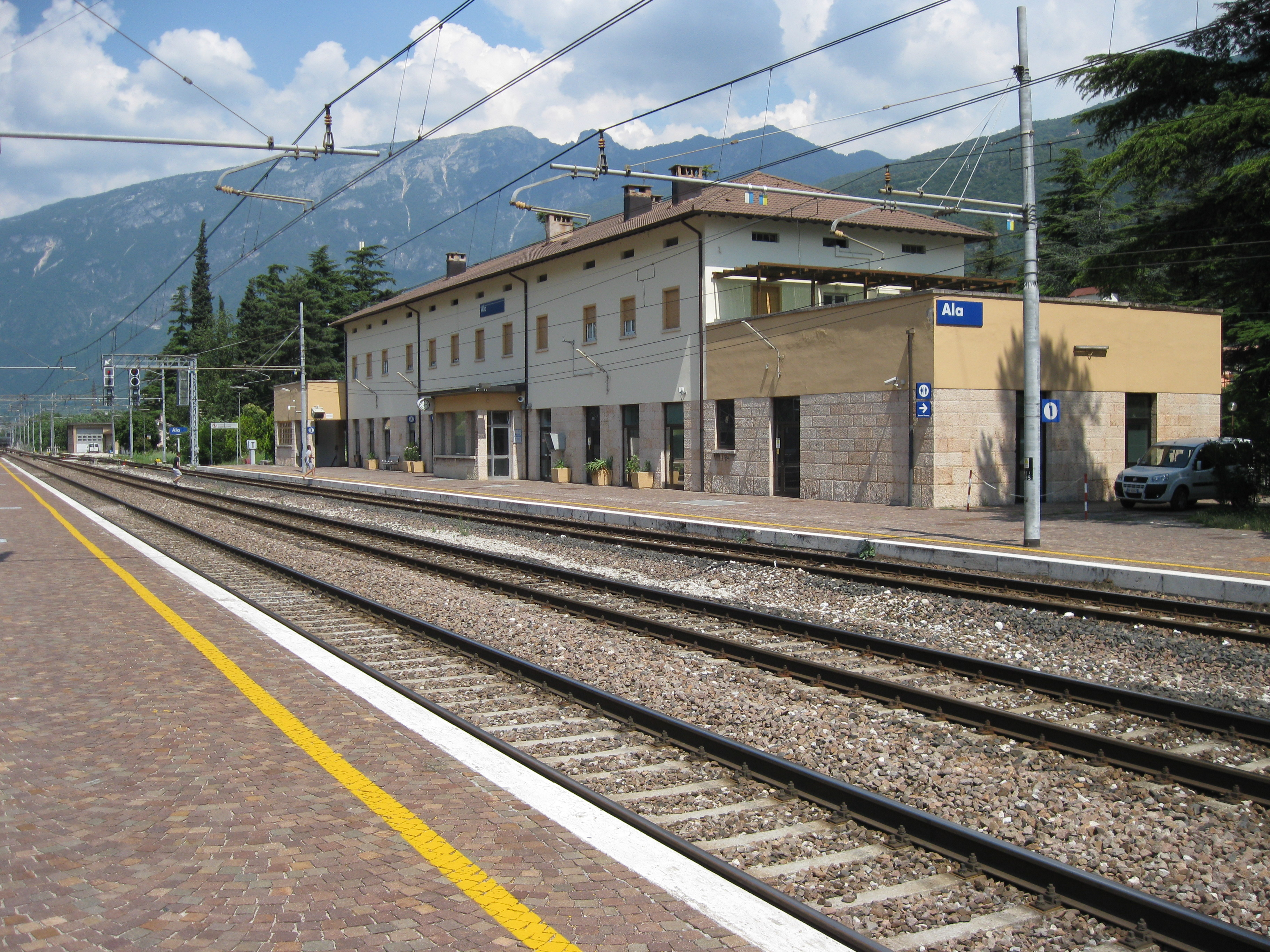 Ala train station, Italy